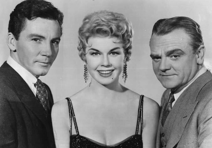 Cameron Mitchell, Doris Day, and James Cagney in a publicity still for Love Me or Leave Me (1955); republished in this instance for the 1986 airing of the film on the Holiday Network